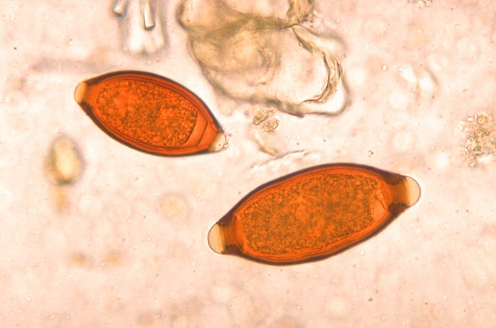 ID#: 630 Description: Eggs of Trichuris trichiura and Trichuris vulpis. Eggs of Trichuris trichiura and Trichuris vulpis. The T. vulpis egg is the larger of the two. Parasite. Content Providers(s): CDC Creation Date: 1970 Copyright Restrictions: None - This image is in the public domain and thus free of any copyright restrictions. As a matter of courtesy we request that the content provider be credited and notified in any public or private usage of this image.